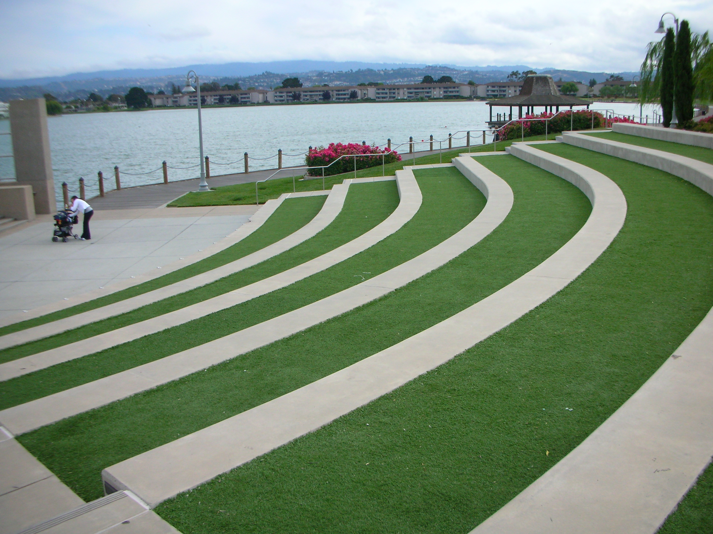 Leo J. Ryan Memorial Park